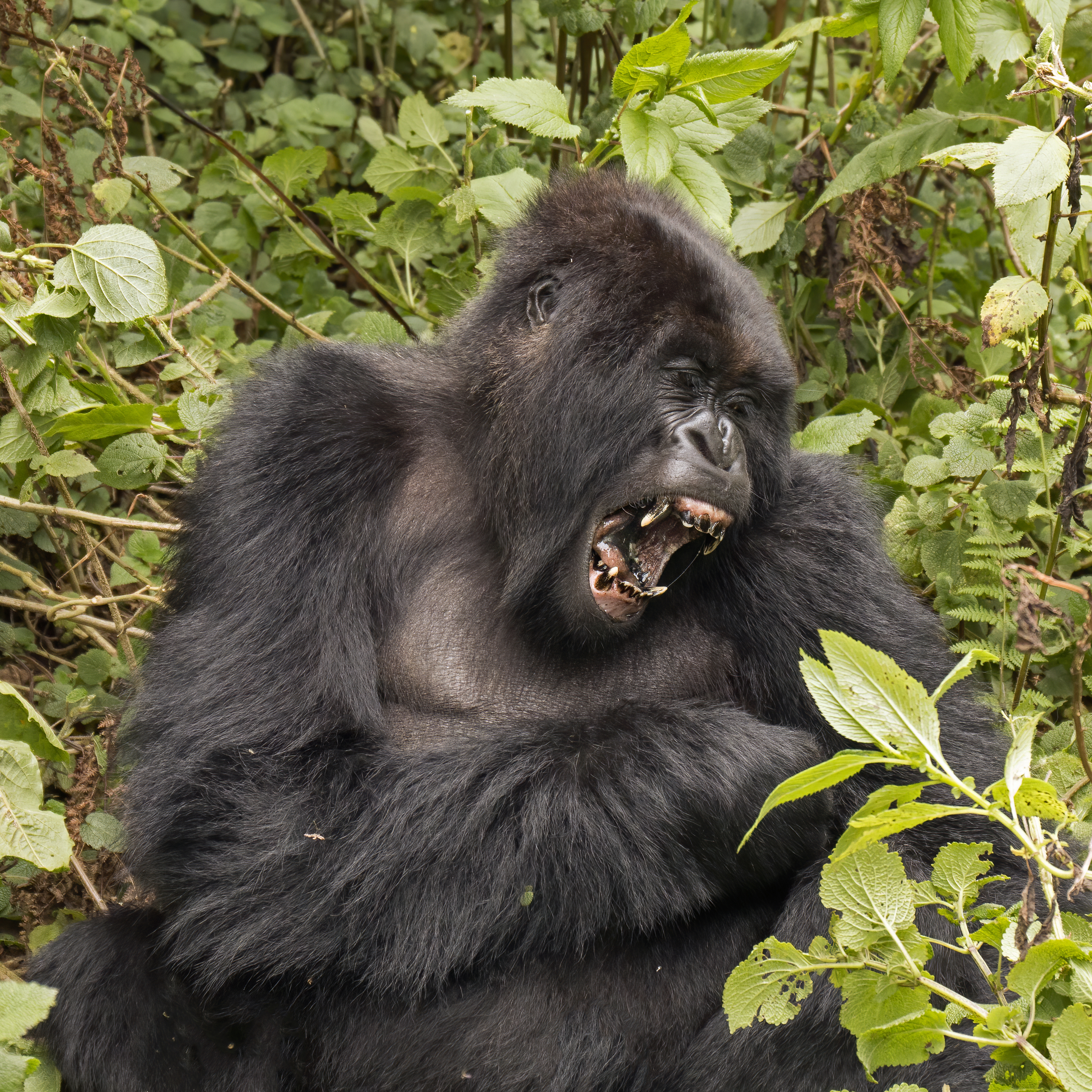 Mountain gorilla (Gorilla beringei beringei) female yawning, Titus Group, Rwanda.